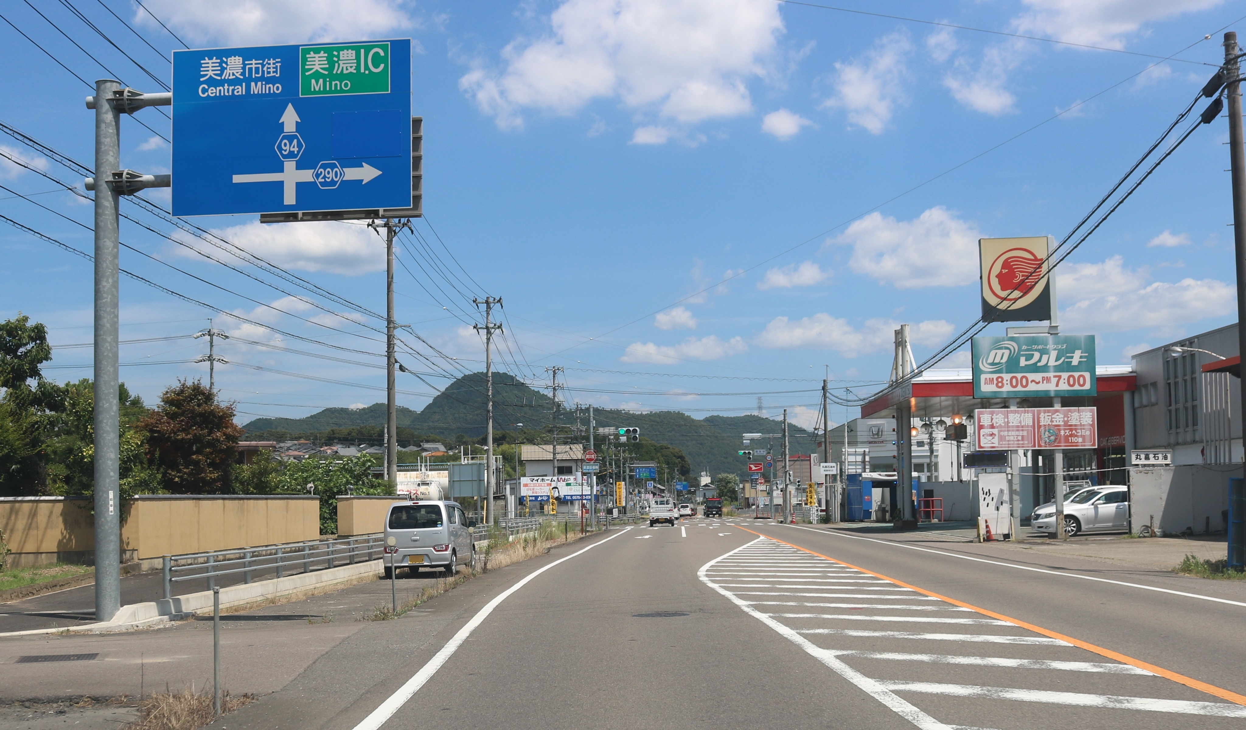 Gifu Prefectural Road Route 94 and Gifu Prefectural Road Route 290 in Gokurakuji, Mino, Gifu Prefecture, Japan.